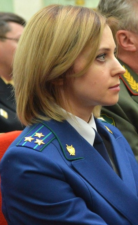 Natalia Poklonskaya, Prosecutor General of the Republic of Crimea from 2014 onwards, at the expanded board meeting of the office of the Prosecutor General of Russia on 24 March 2015.